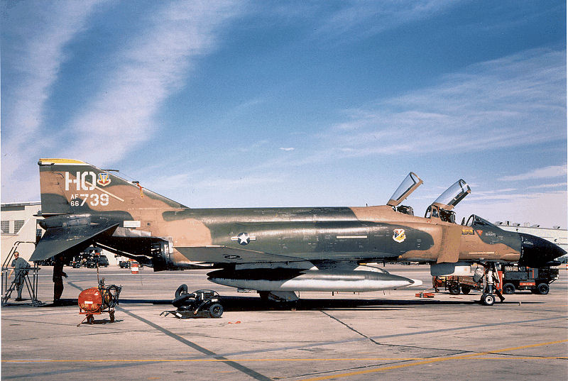 McDonnell F-4D-31-MC Phantom 66-7739 8th Tactical Fighter Squadron, 49th Tactical Fighter Wing, photo taken at Ramstein Air Base, West Germany 7739 (c/n 2371) to AMARC as FP318 Oct 3, 1989.